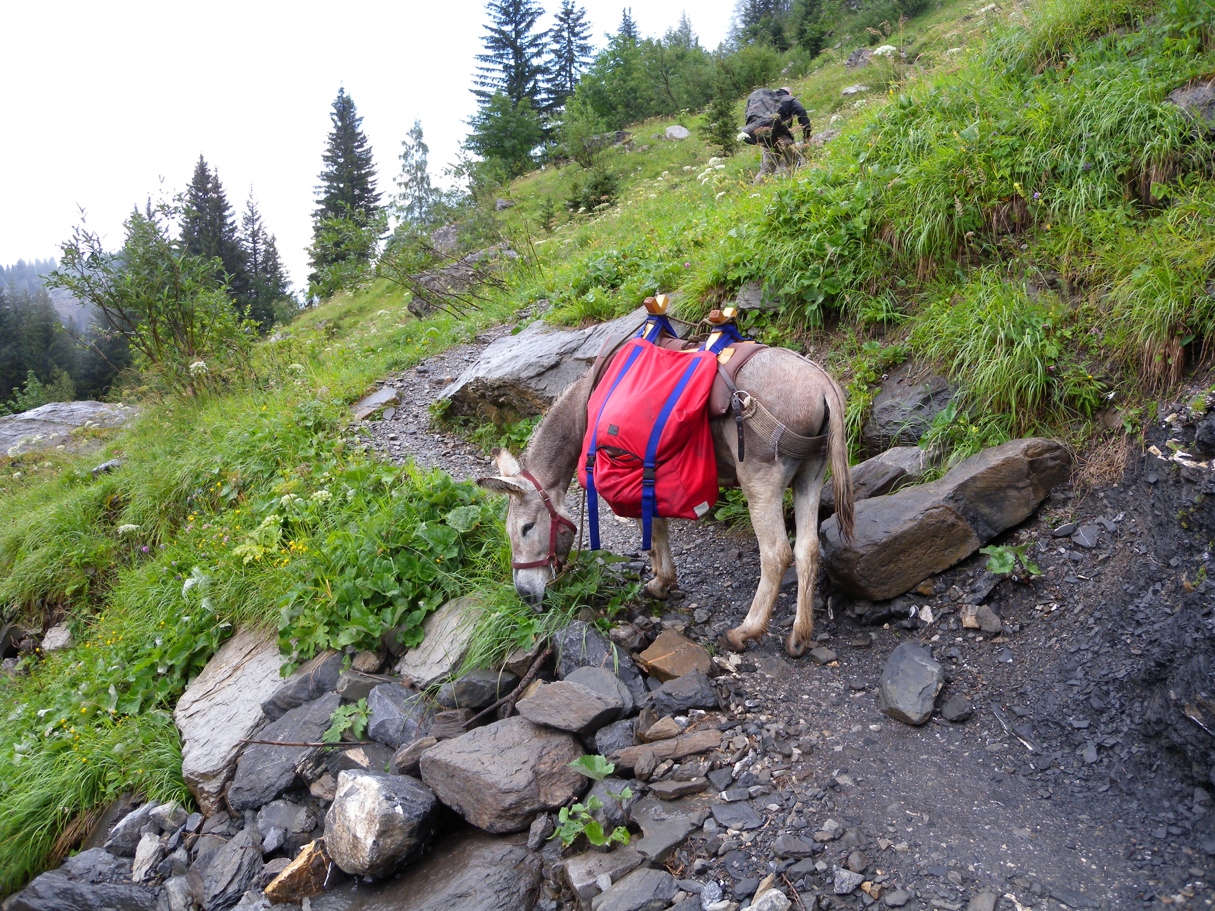 Plateau of Anterne, Sixt fer à cheval